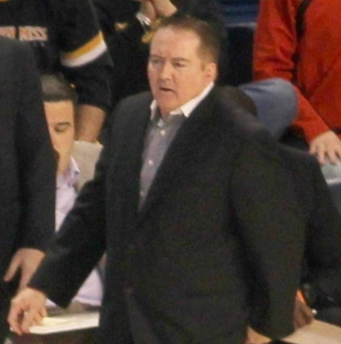 University of Southern Mississippi men's basketball coach Donnie Tyndall coaches in the game against Tulsa on Jan. 26, 2013.